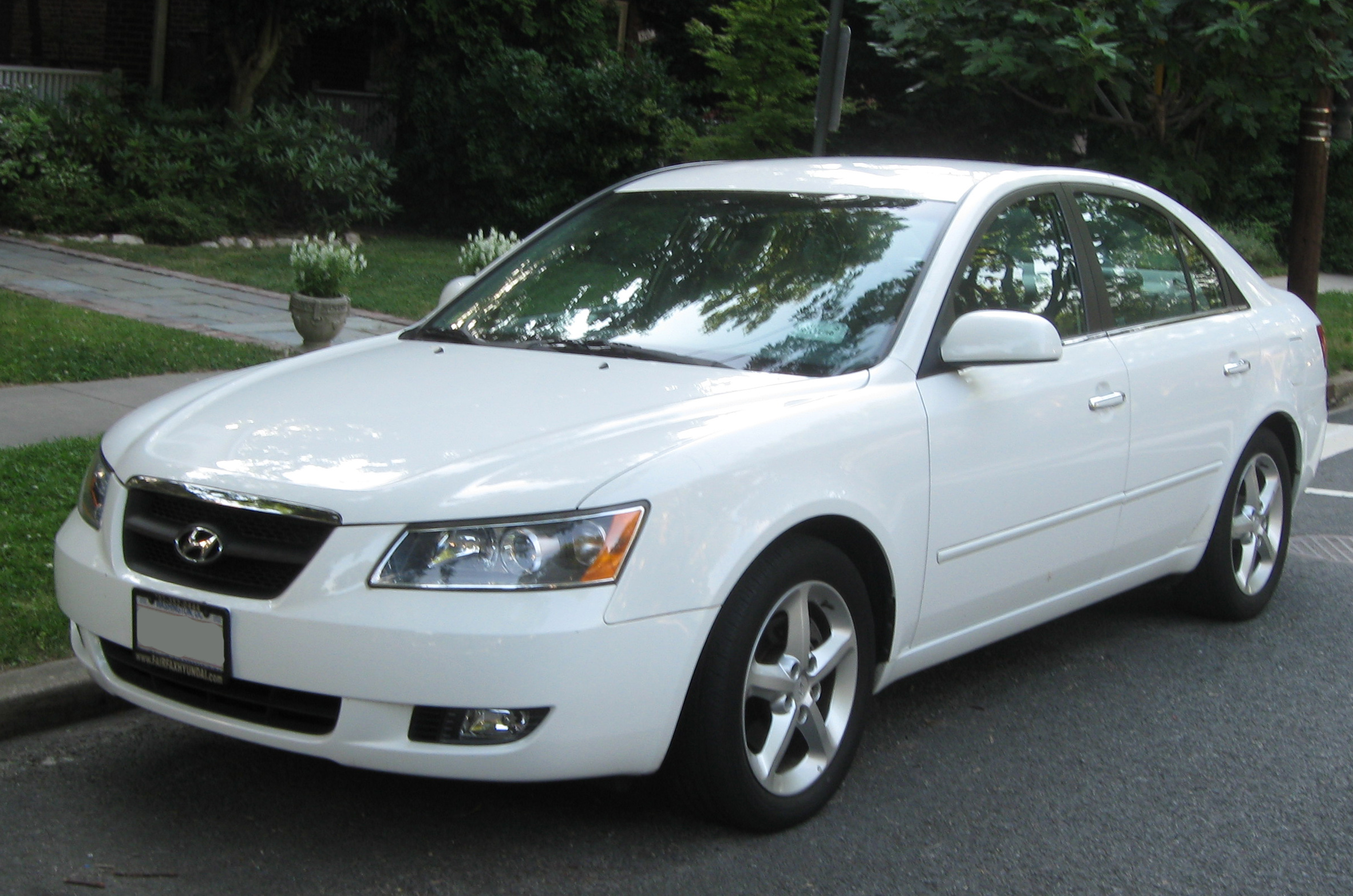 2006-2008 Hyundai Sonata photographed in Washington, D.C., USA.